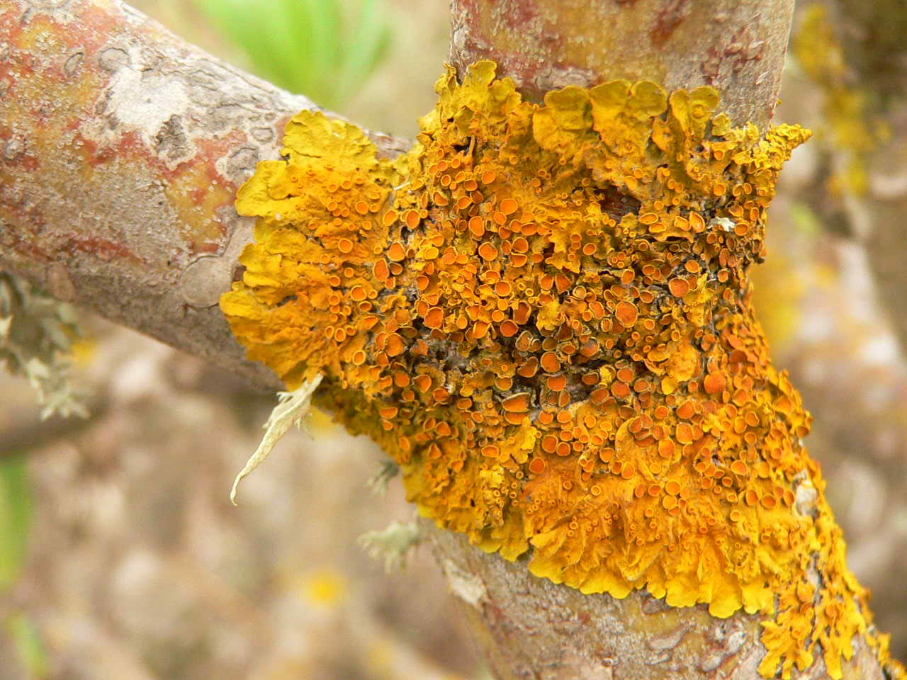 Liquen (Xanthoria parietina) en tabaiba / Lichen (Xanthoria parietina) growing on tabaiba. Gran Canaria